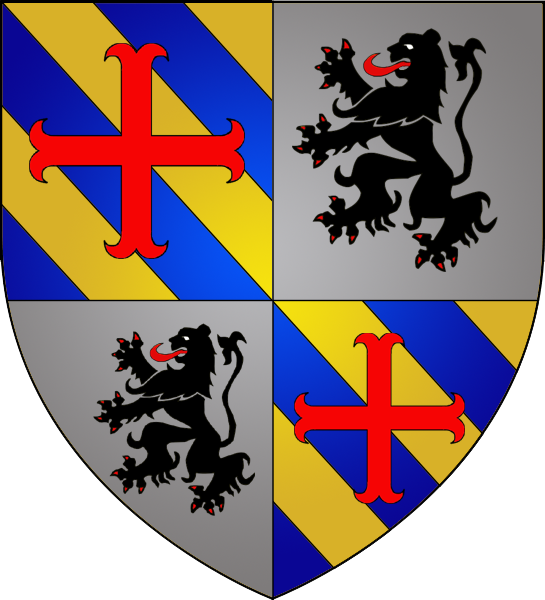 Coat of arms of the municipality of Mompach, Luxembourg